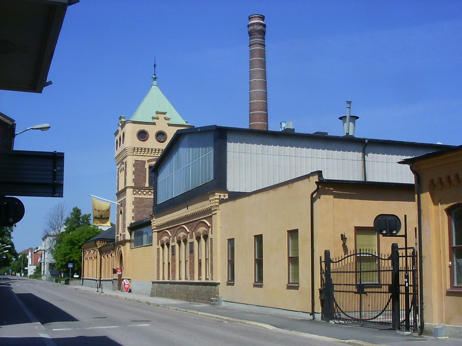 Köping, car museum